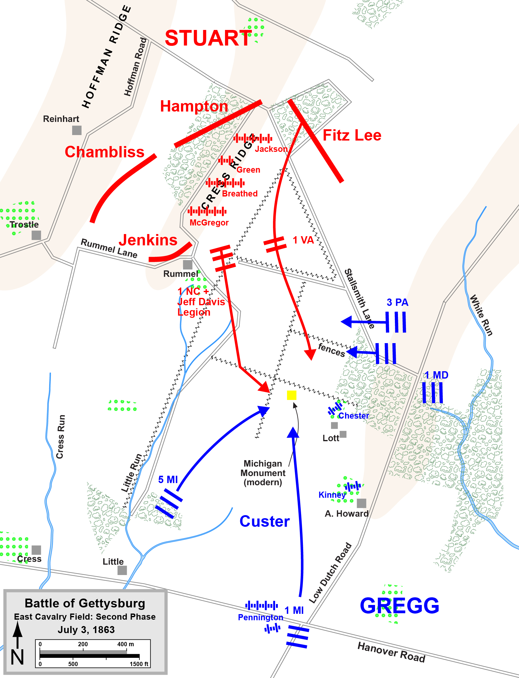 Map of actions in the Battle of Gettysburg, third day, East Cavalry Field (3 of 3). Drawn by Hal Jespersen in Macromedia Freehand. Graphic source file is available at